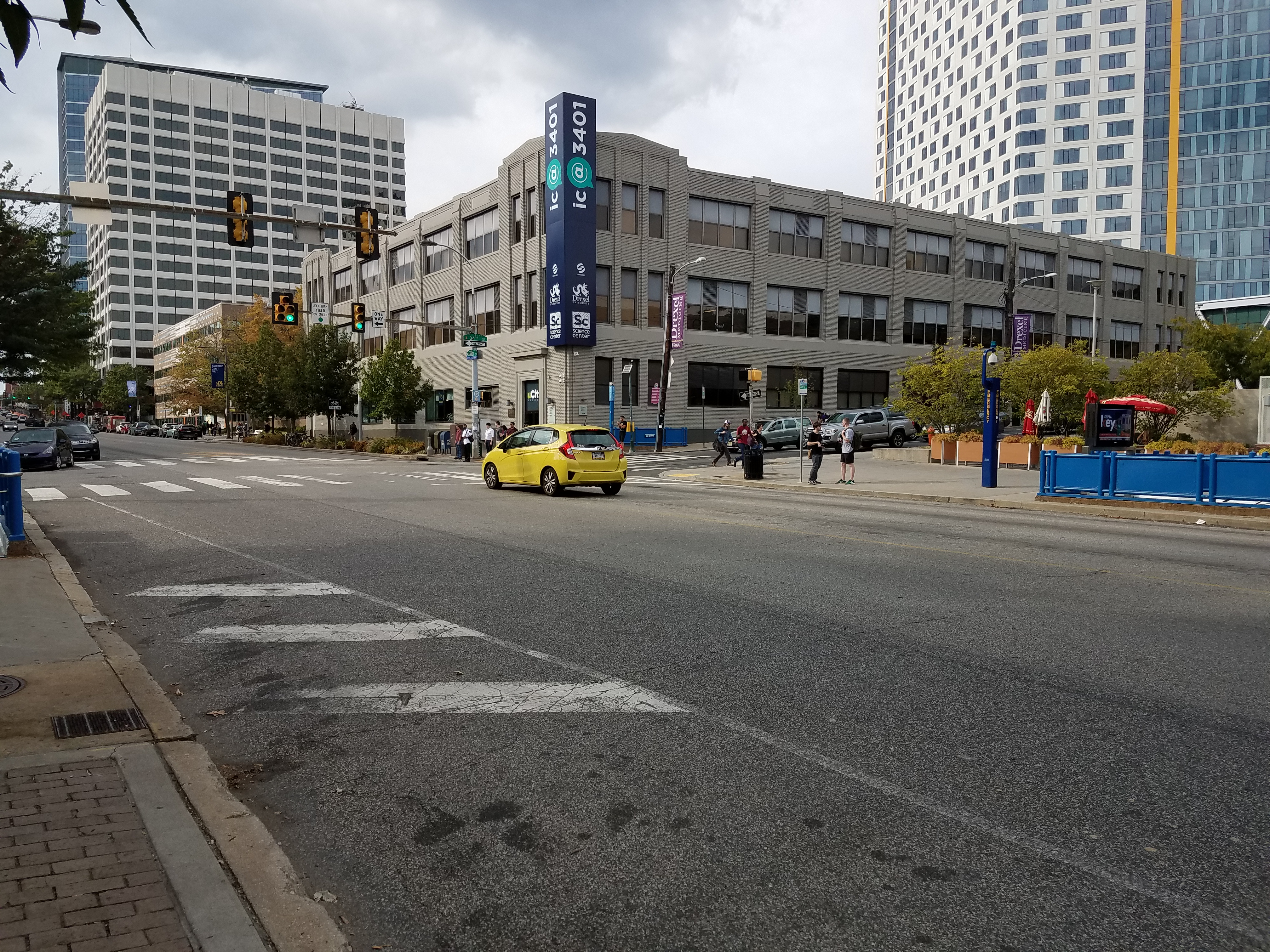 Drexel University School of Education offices are located at 3401 Market Street in Philadelphia, PA